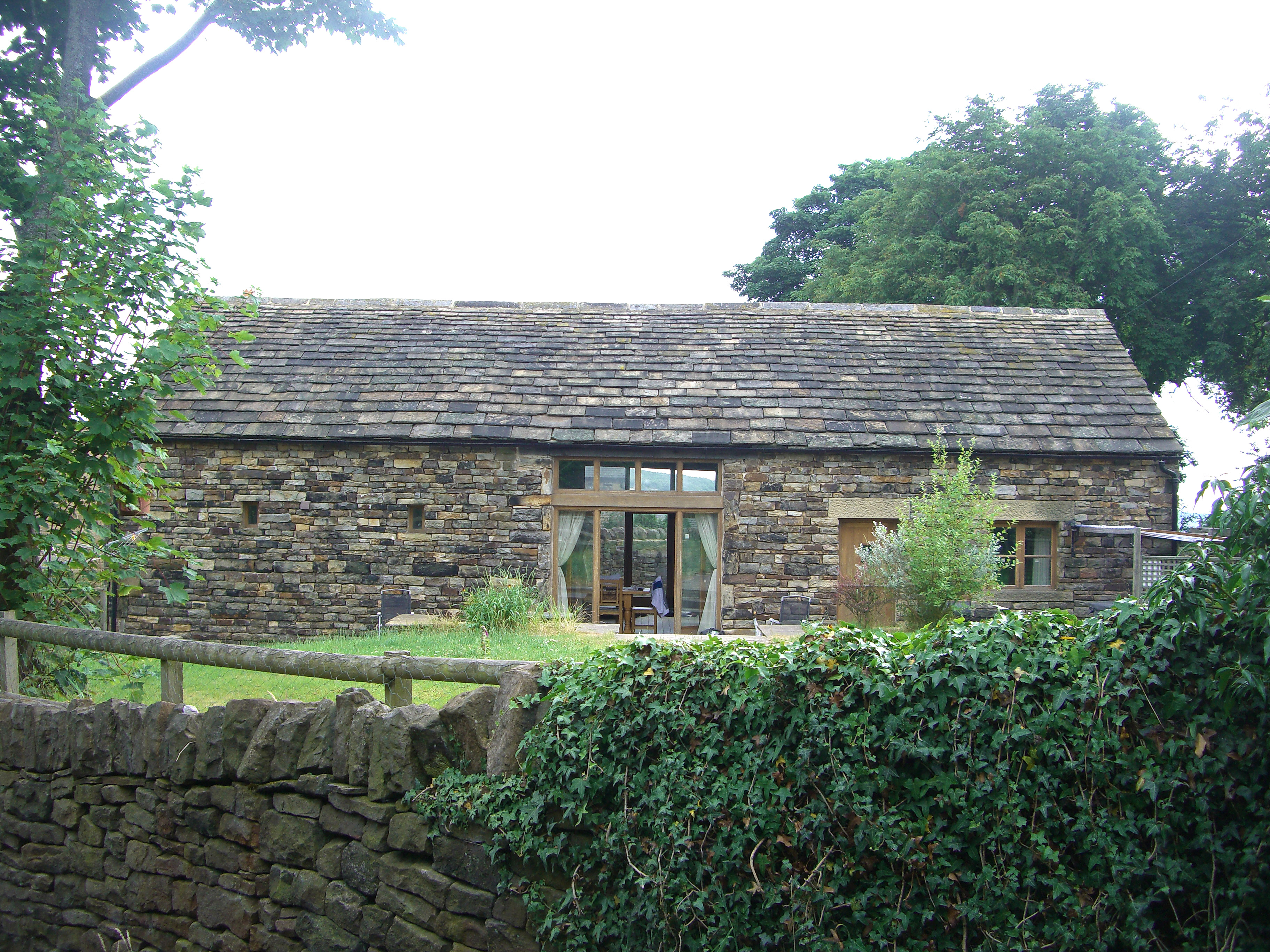 The cruck barn at Throstle Nest Farm at Storrs, Sheffield, England. The building has four pairs of internal Cruck timbers and was converted into a private dwelling some time after being designated a Grade II Listed Building in 1985.